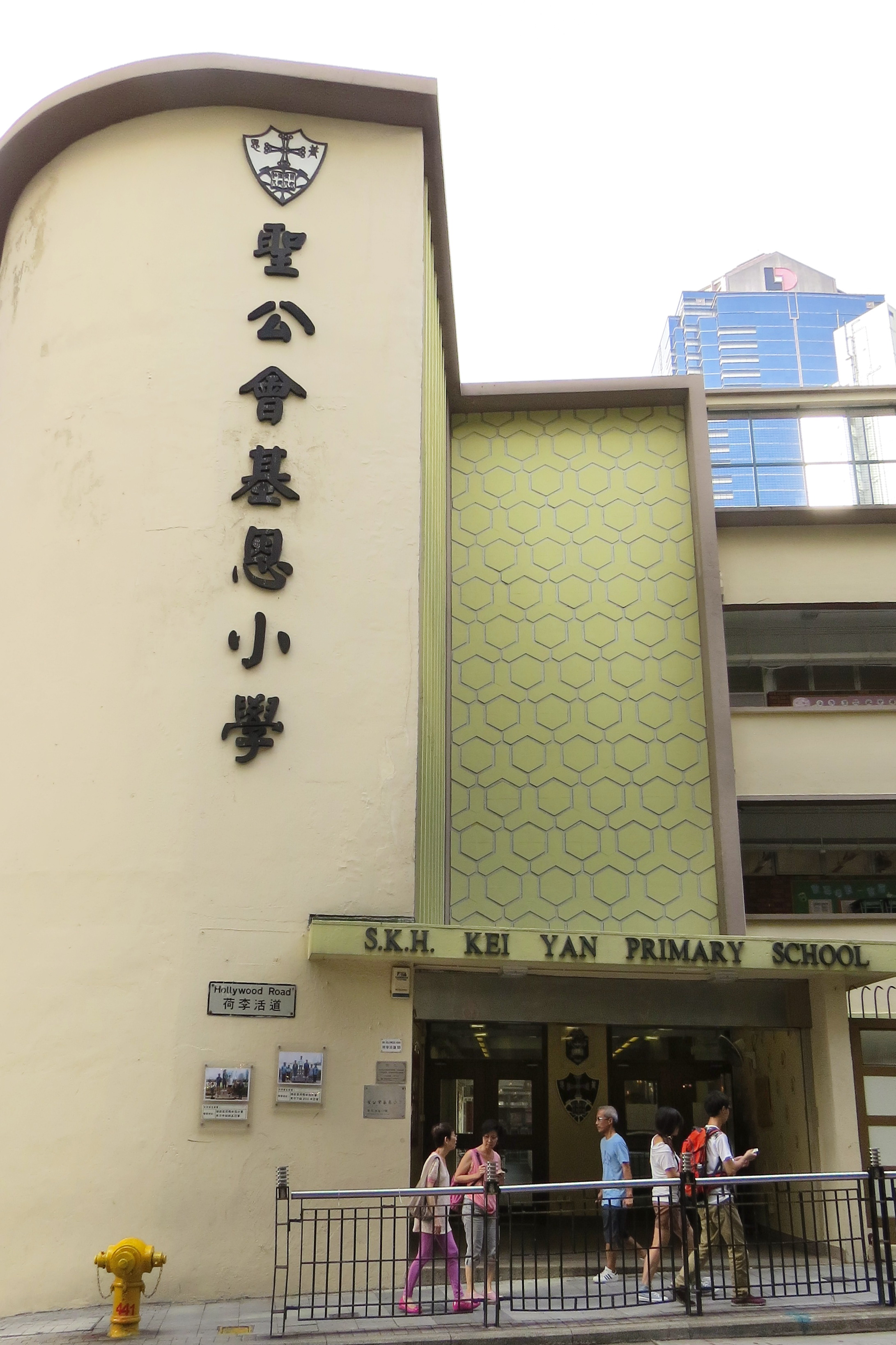 S.K.H. Kei Yan Primary School, 109 Hollywood Road, Central, Hong Kong.